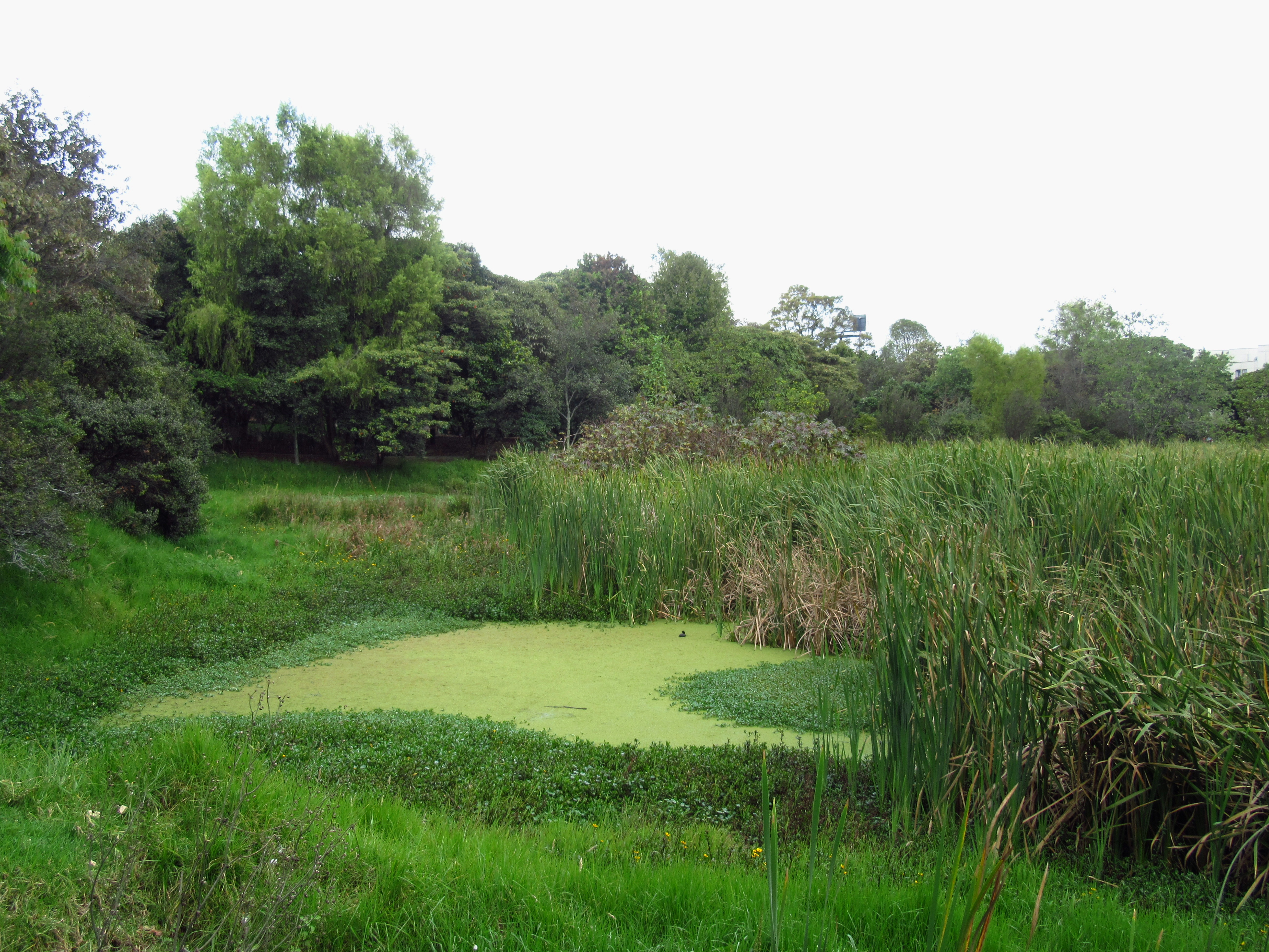 Tingua de pico rojo entre la vegetación del humedal Santa María del Lago, en la localidad de Engativá al occidente de Bogotá.